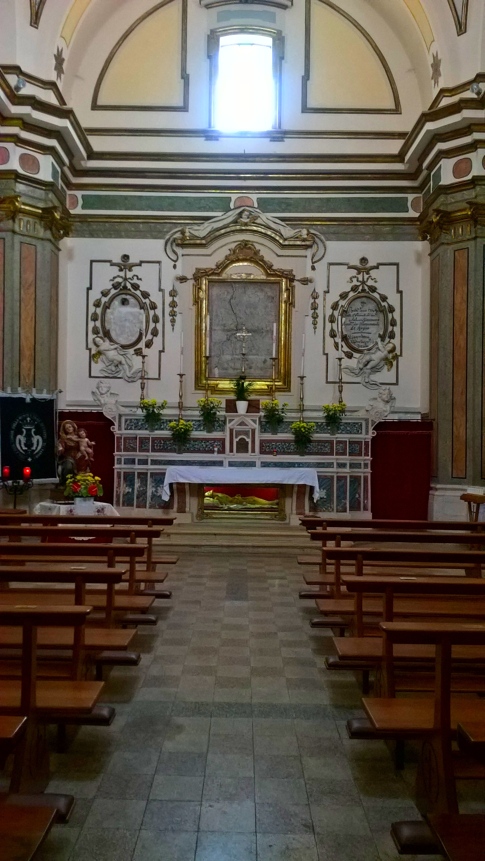 Chiesa di Orazione e Morte - Interior view, high altar